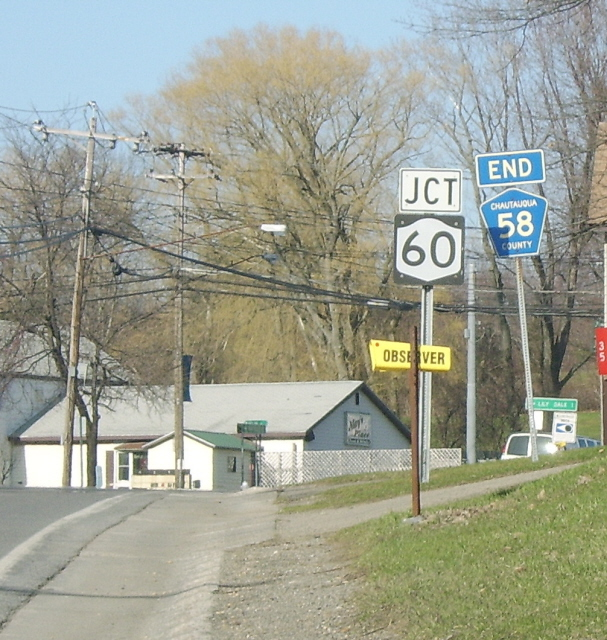 The northern terminus of Chautauqua County Route 58 (formerly New York State Route 424) in Cassadaga, NY